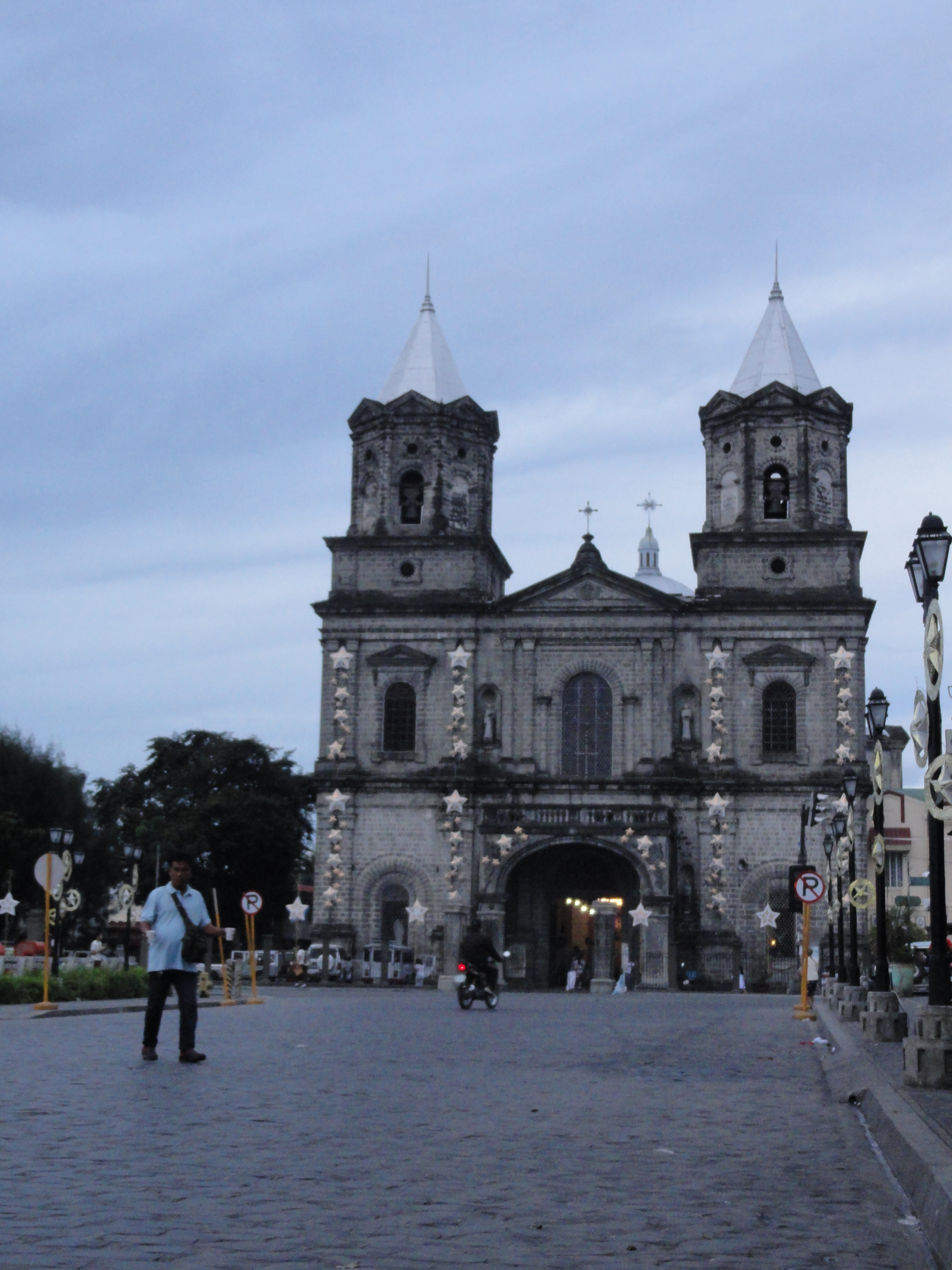 Angeles church